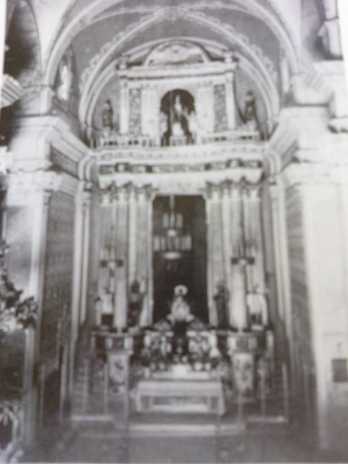 This baroque altarpiece was the altar of the church of Les Borges del Camp and was burned to the revolt of 1936